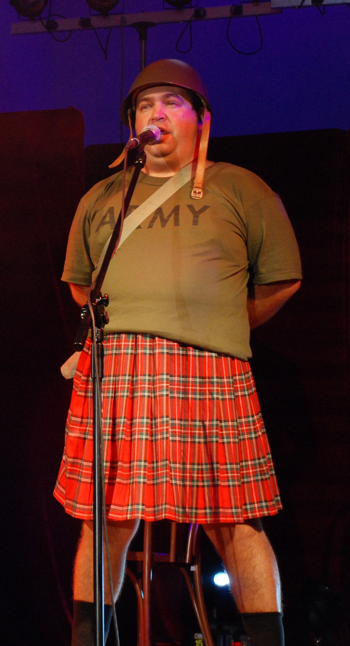 Waldemar Wilkołek of Kabaret Ani Mru-Mru during their performance on the fourth day of the 2007 Festival of Cabaret in Zielona Góra.